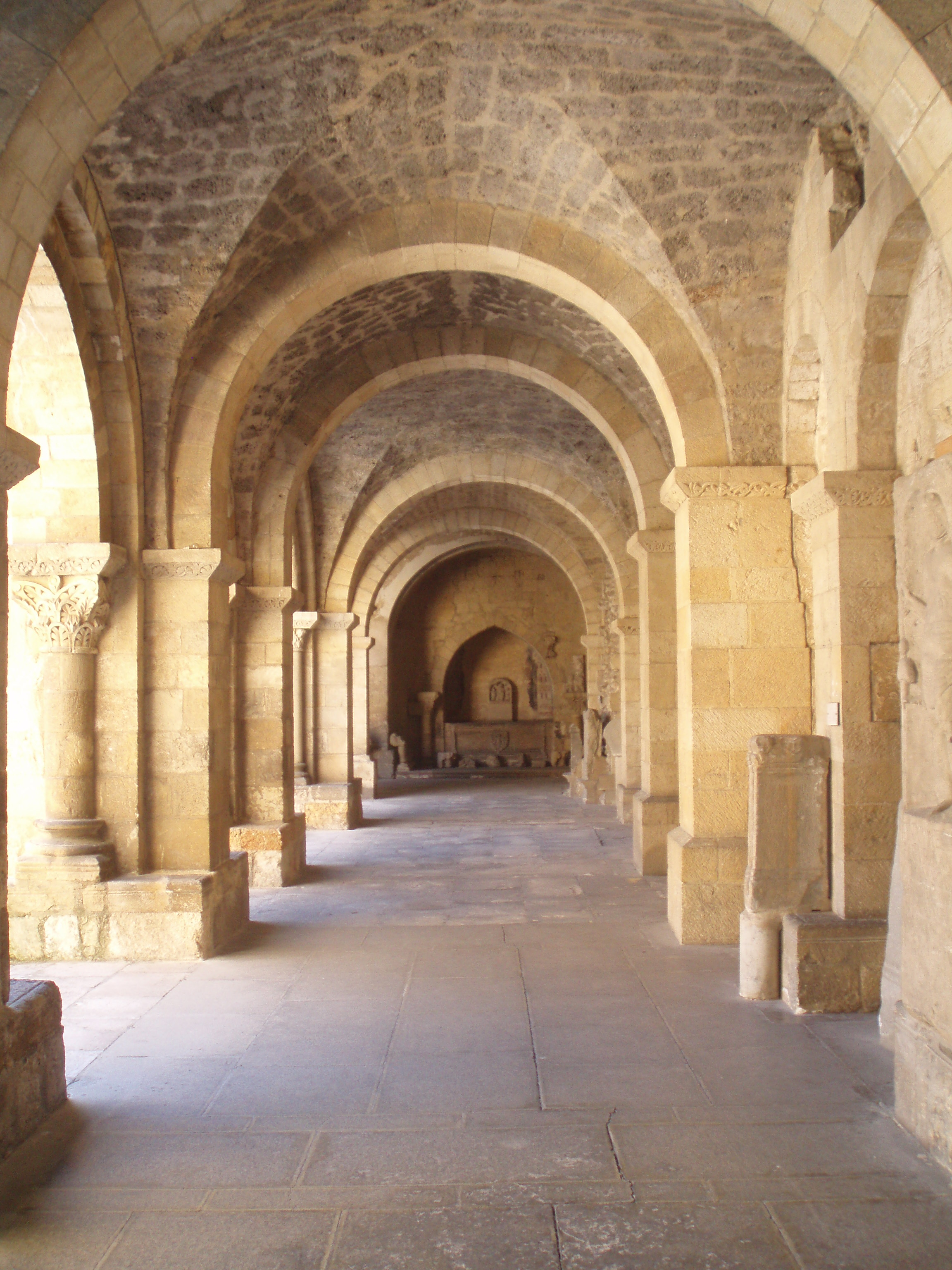 Cloister of Royal Collegiate of San Isidoro of Leon. (Spain).